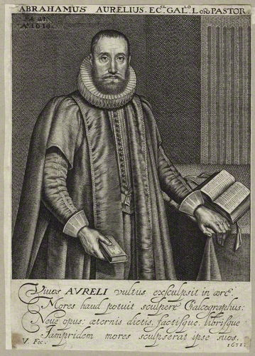 Portrait of Abraham Aurelius, Dutch-English pastor.